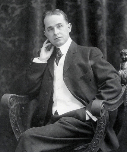 Portrait of Winsor McCay in 1906, a version of which appeared in the New York Herald on 1907-02-17